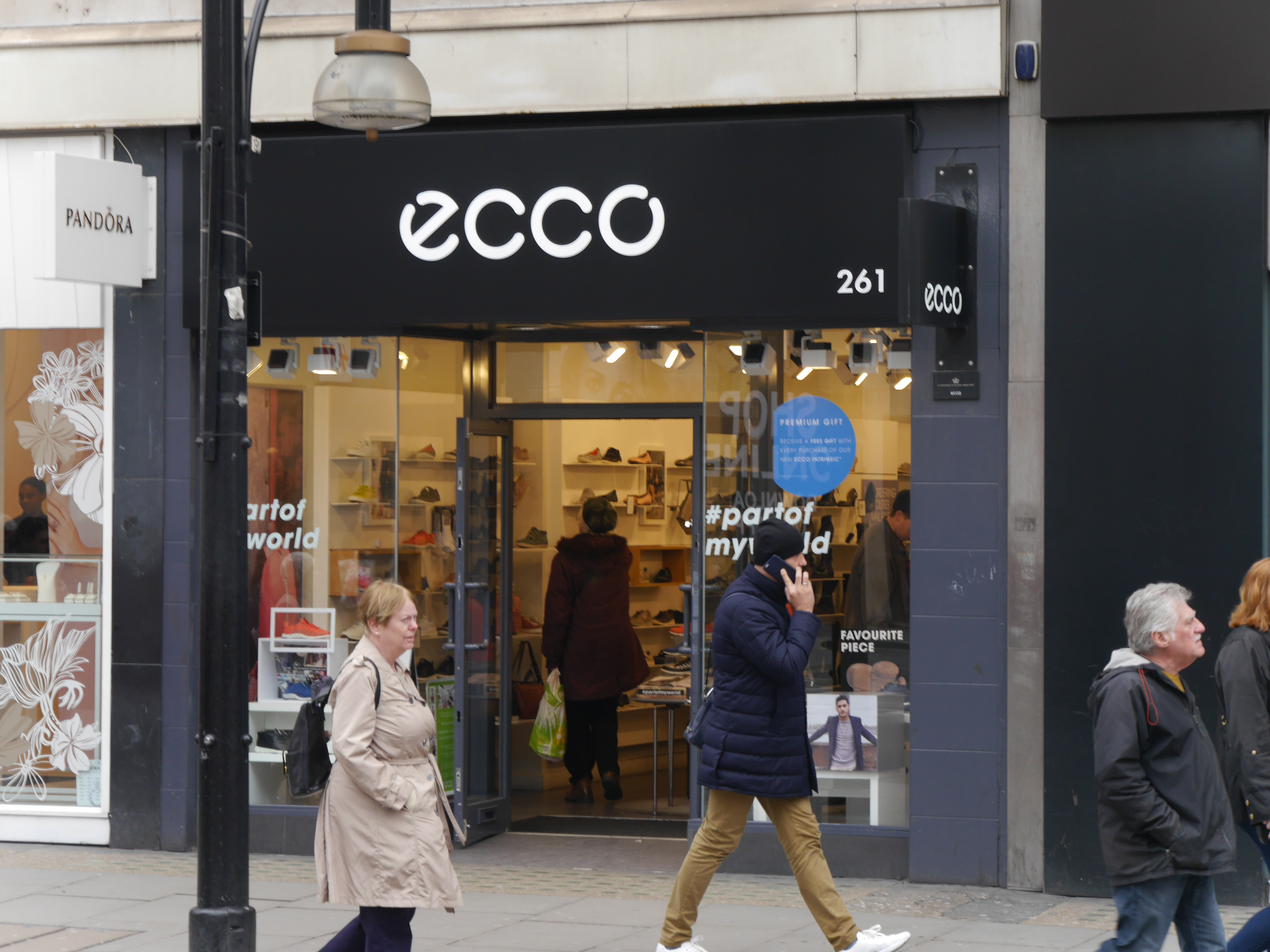 Oxford Street, London, March 2016